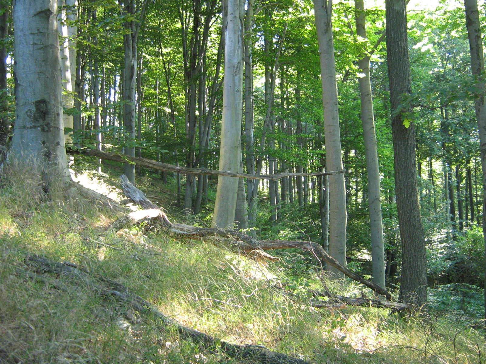 Melittio-Fagetum in Börzsöny mountain